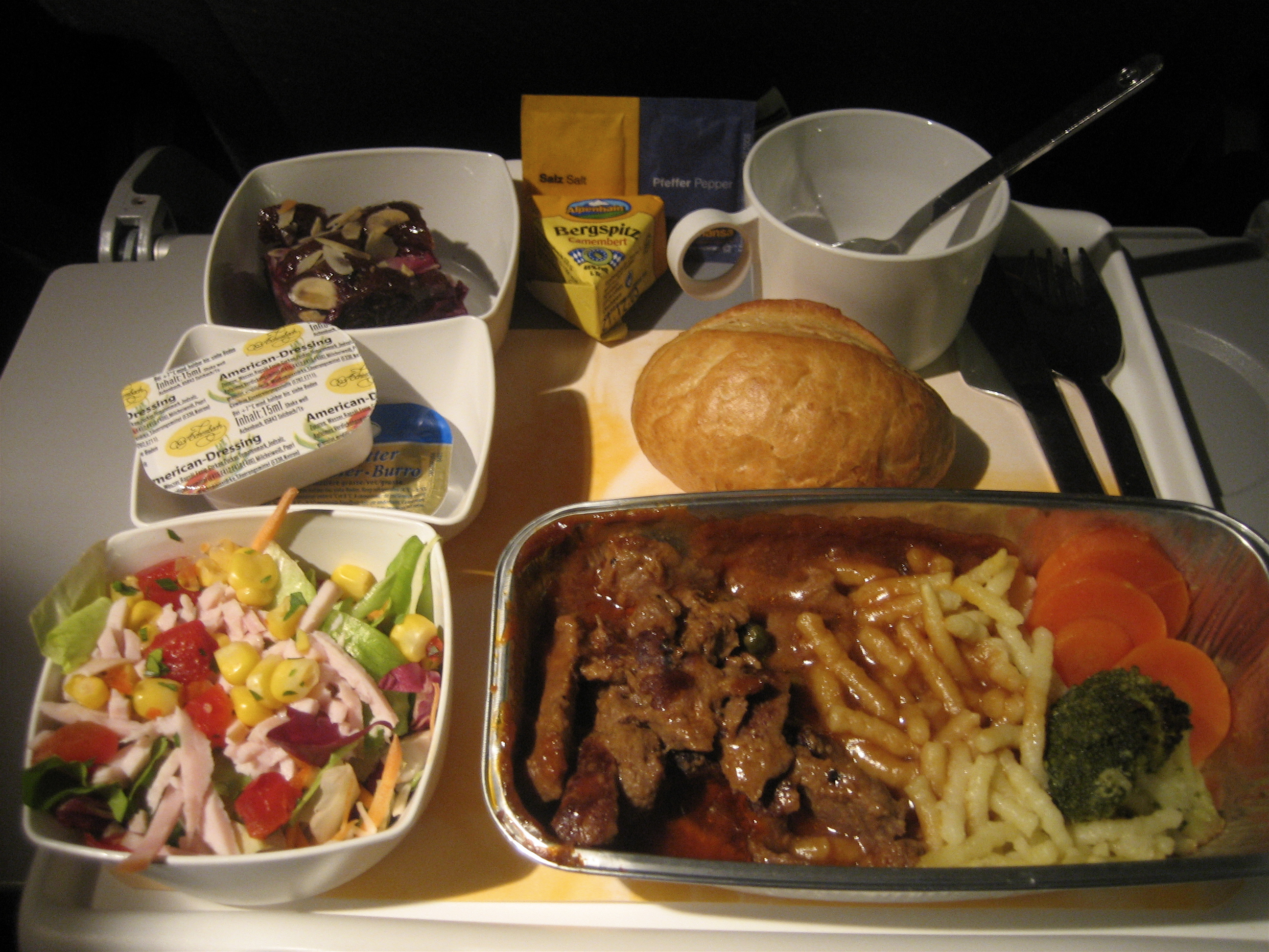 Lufthans inflight meal.